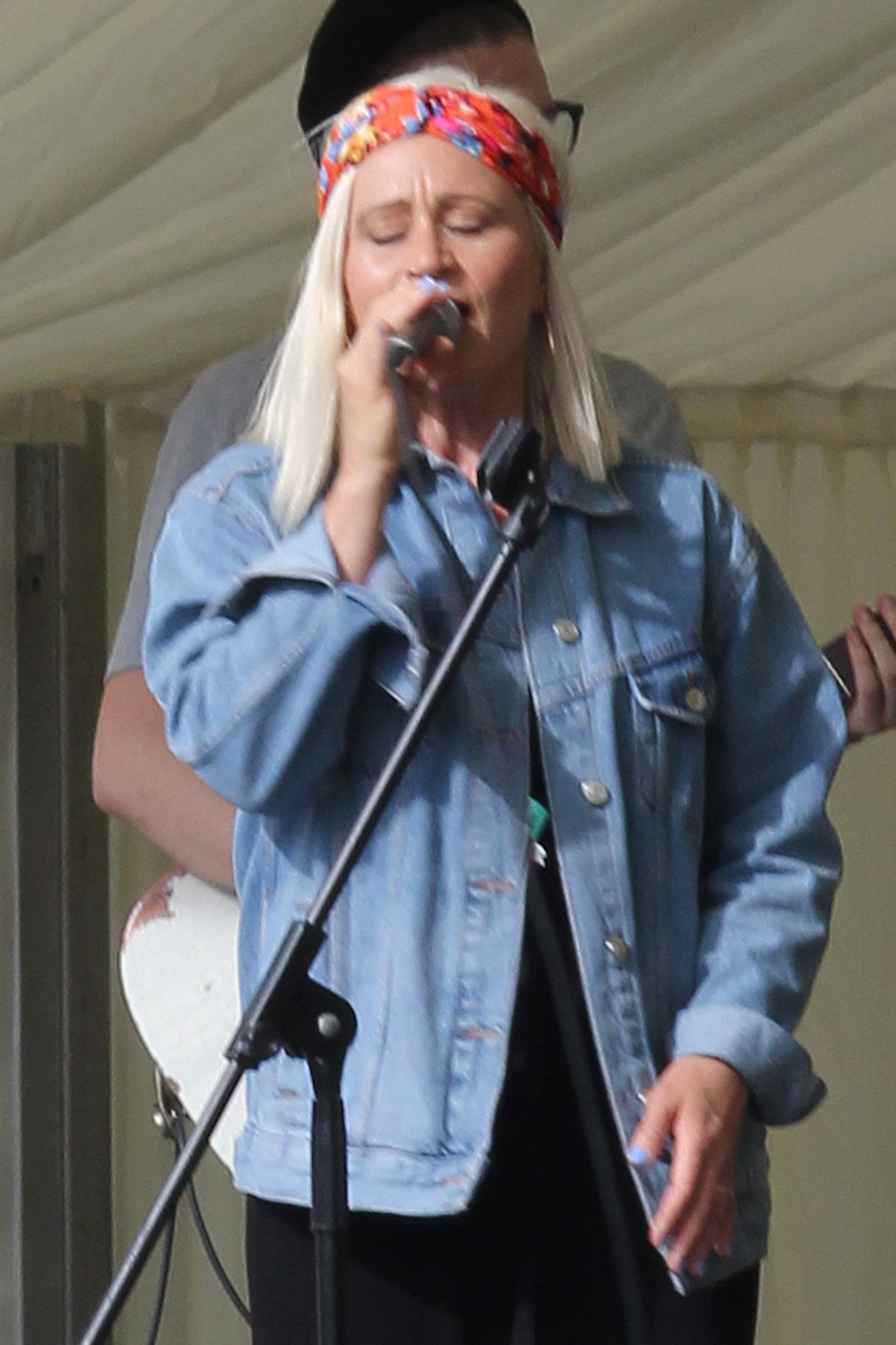 Lou Fellingham performing at Big Church Day Out (South) at Wiston House, West Sussex. UK.